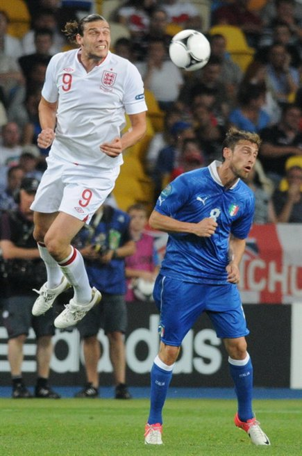 Andy Carroll and Claudio Marchisio at Euro 2012 match England-Italy